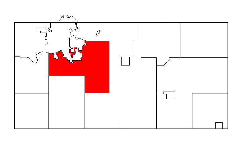 I made this map to show where Washington is situated in Eau Claire County.